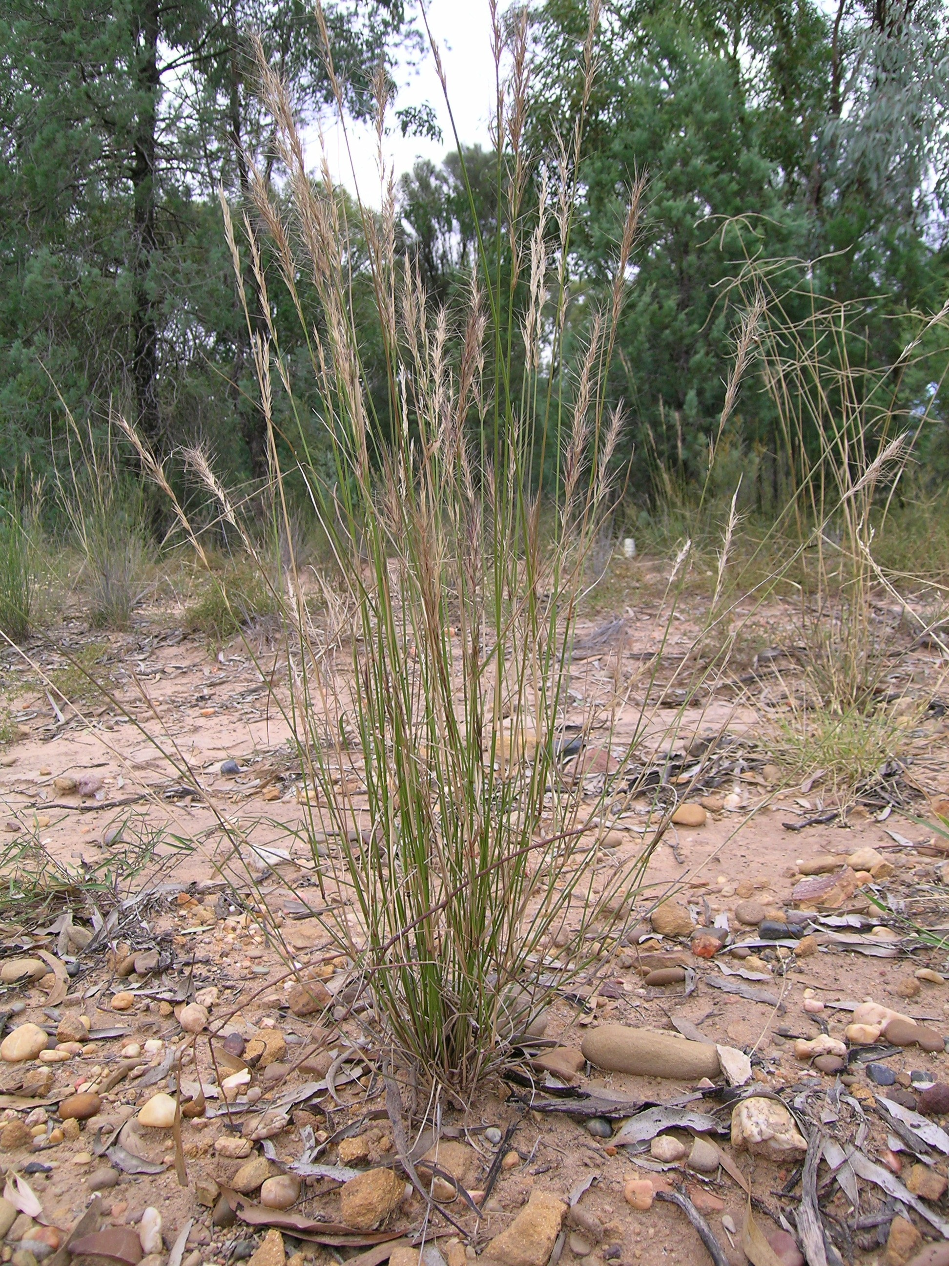 Native, warm-season, perennial, tufted, long-lived grass to 1 m tall. Stems are wiry, often branched and have very little leaf. Found on low fertility soils (roadsides, native pastures and open forests). Often associated with iron bark trees, spotted gum and shallow drier soils.